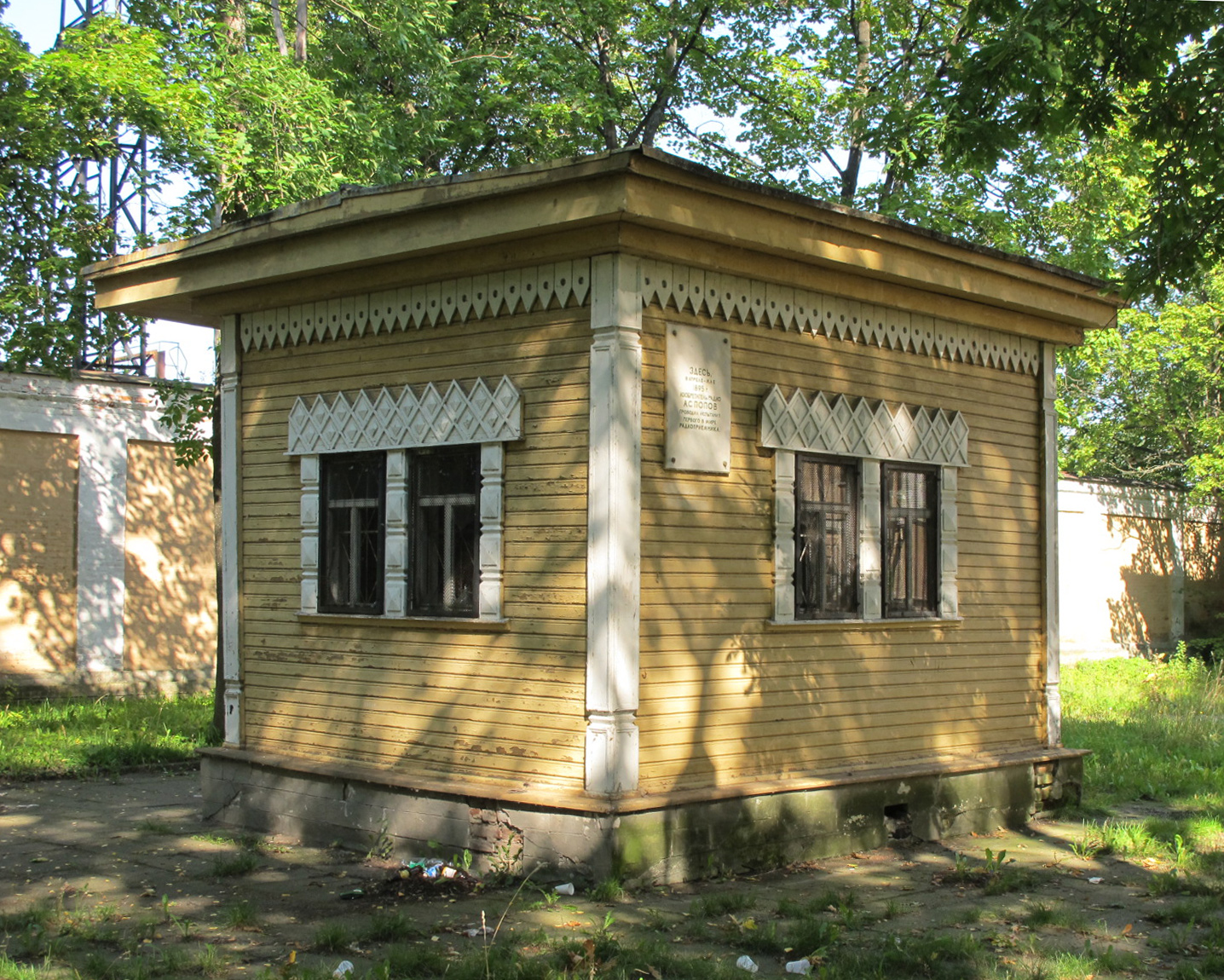 The house in Kronstadt with a plaque in Russian which states that here Alexander Popov had tested the first radio receiver